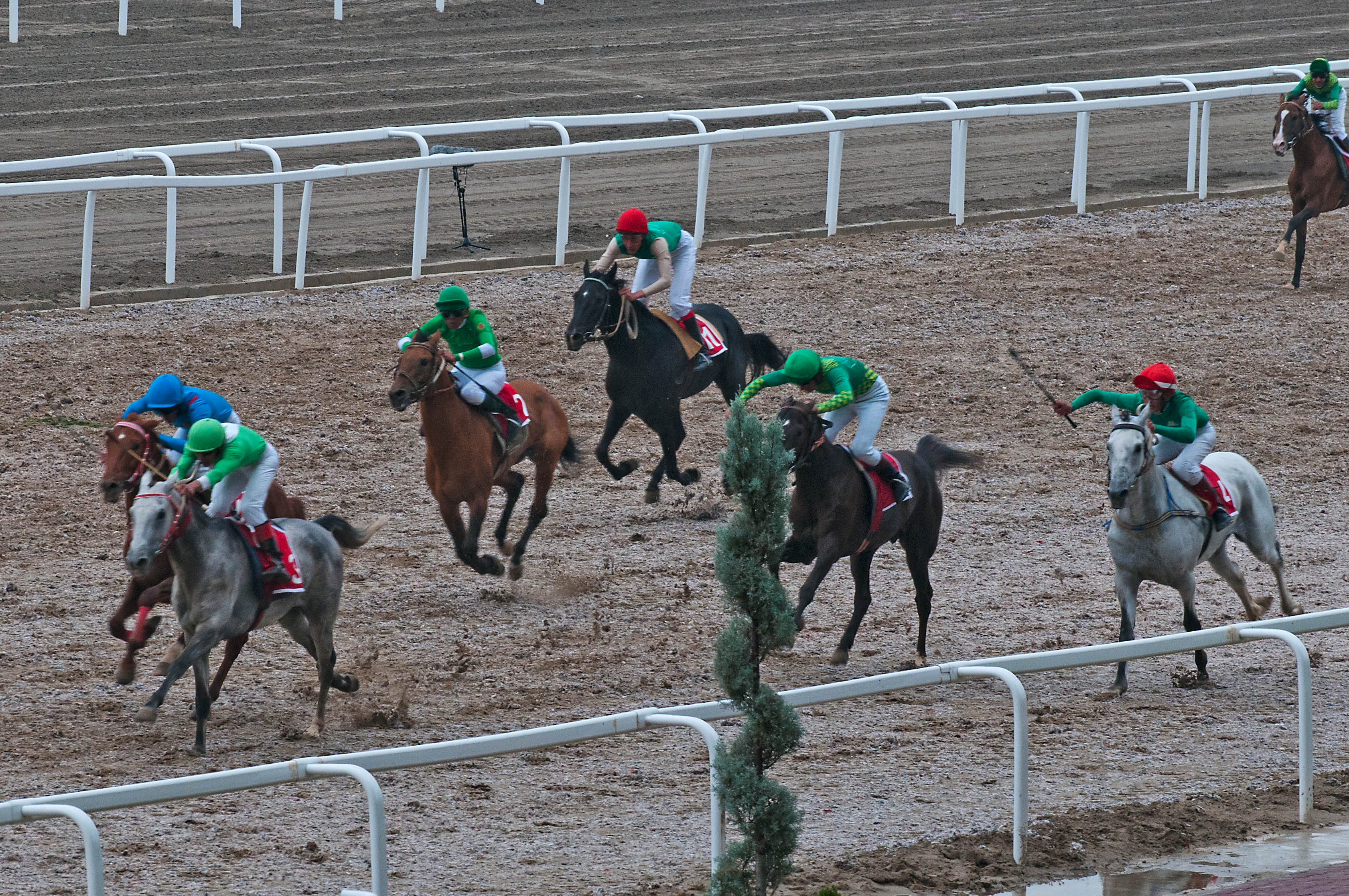 Opening of the Ahal Velayat Equestrian Complex